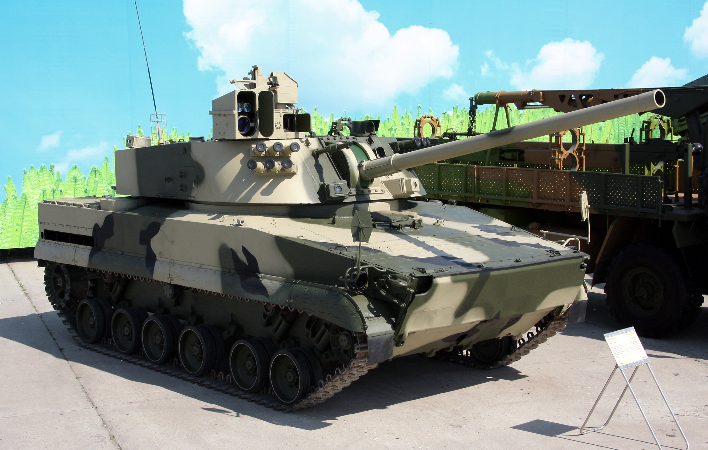 2S31 "Vena" self-propelled howitzer-mortar at "Engineering Technologies 2010" forum